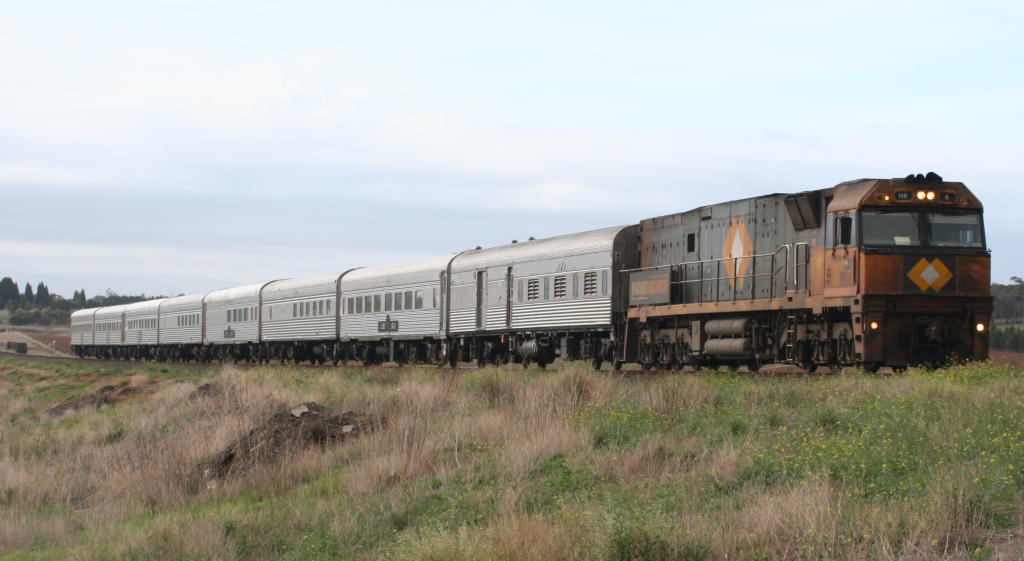 Locomotive NR6 leading the last unrefurbished 'The Overland', though Moorabool, near Geelong.